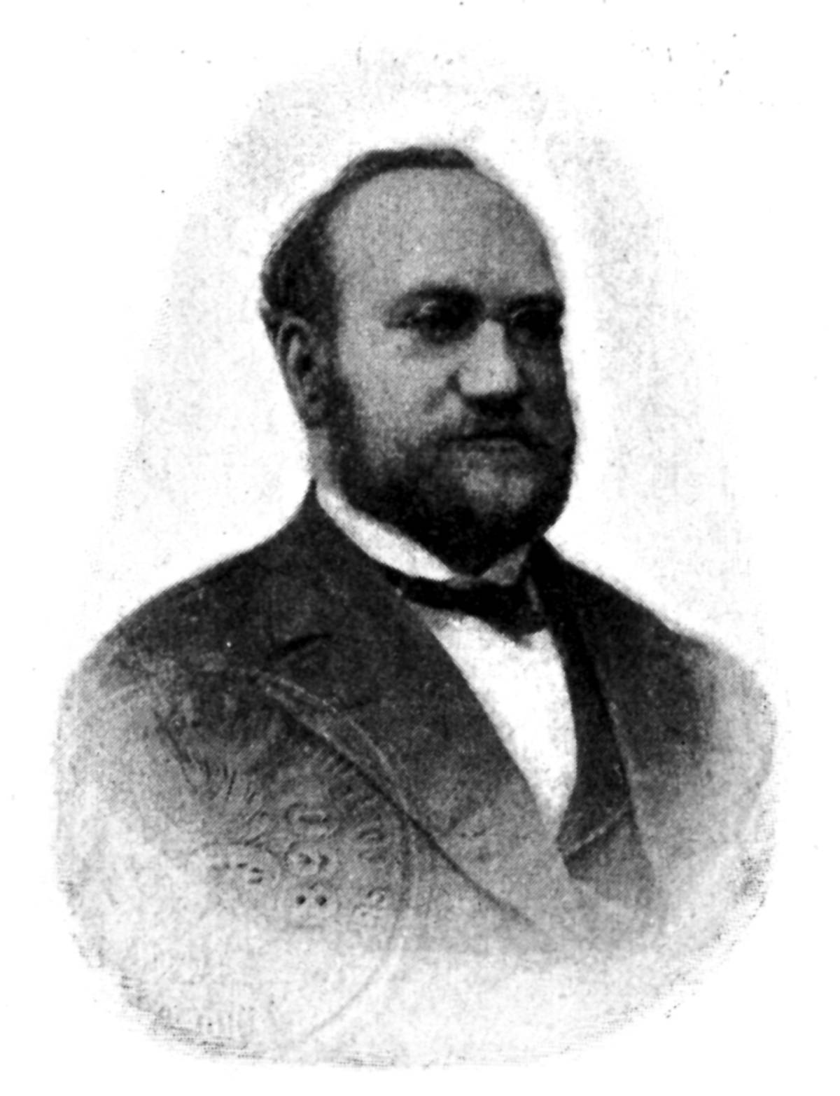 Wilhelm Sander